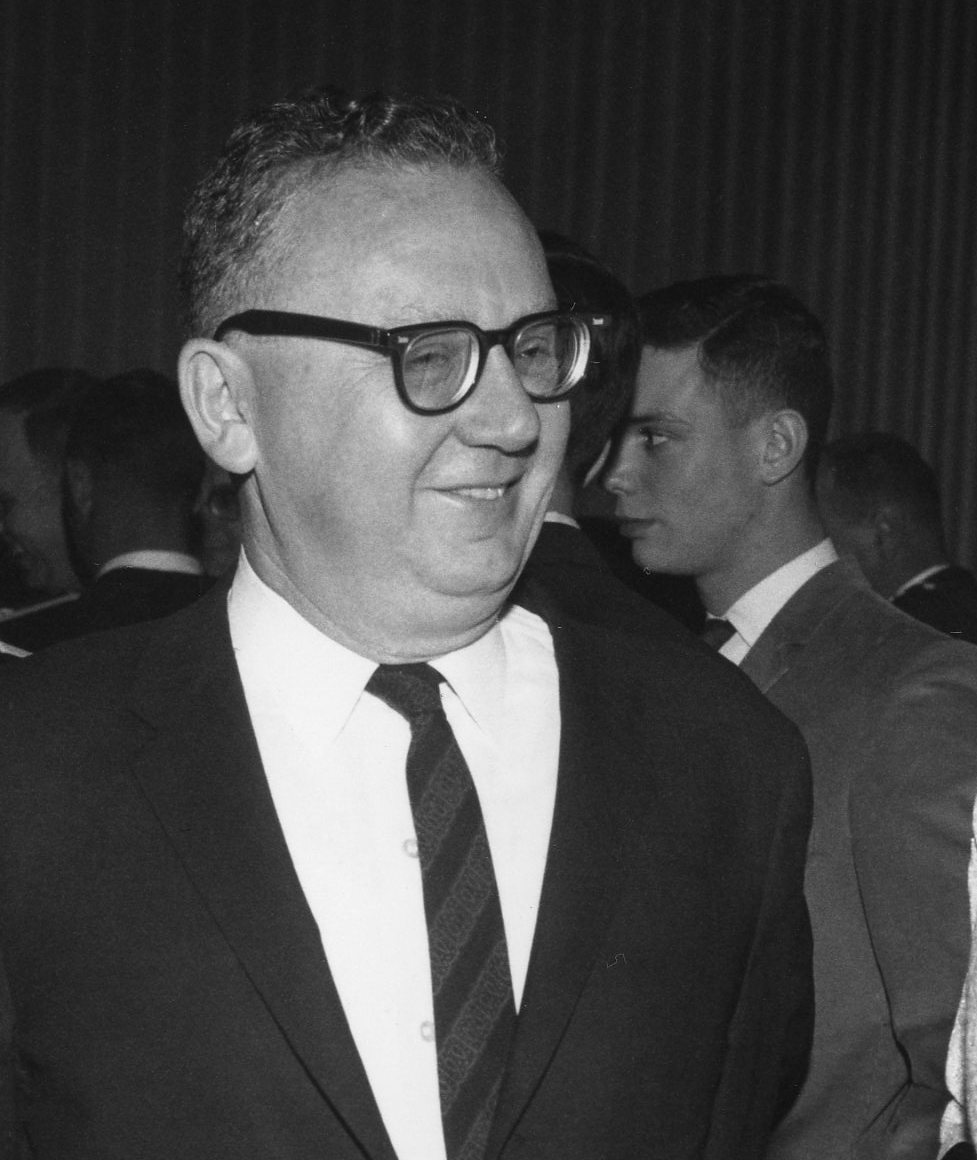 An undated photo of Leonard Silk (second from left) at a U.S. Air Force Academy event. From the Leonard Silk Papers, 1929-1985 and undated, bulk 1950-1985 , Box 32. Rubenstein Library, Duke University.